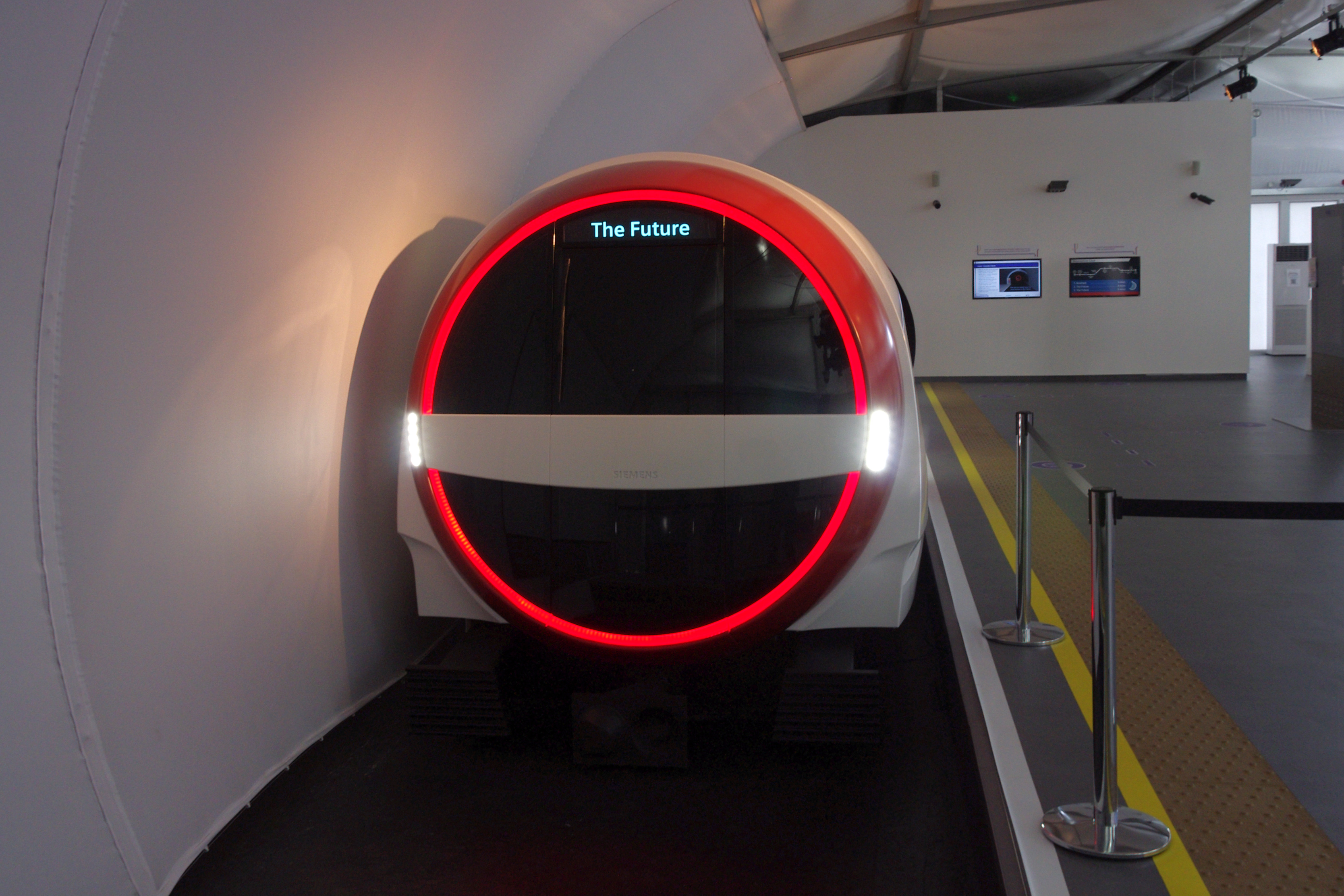 The Siemens Inspiro Metro mockup at the Going Underground exhibition at The Crystal.